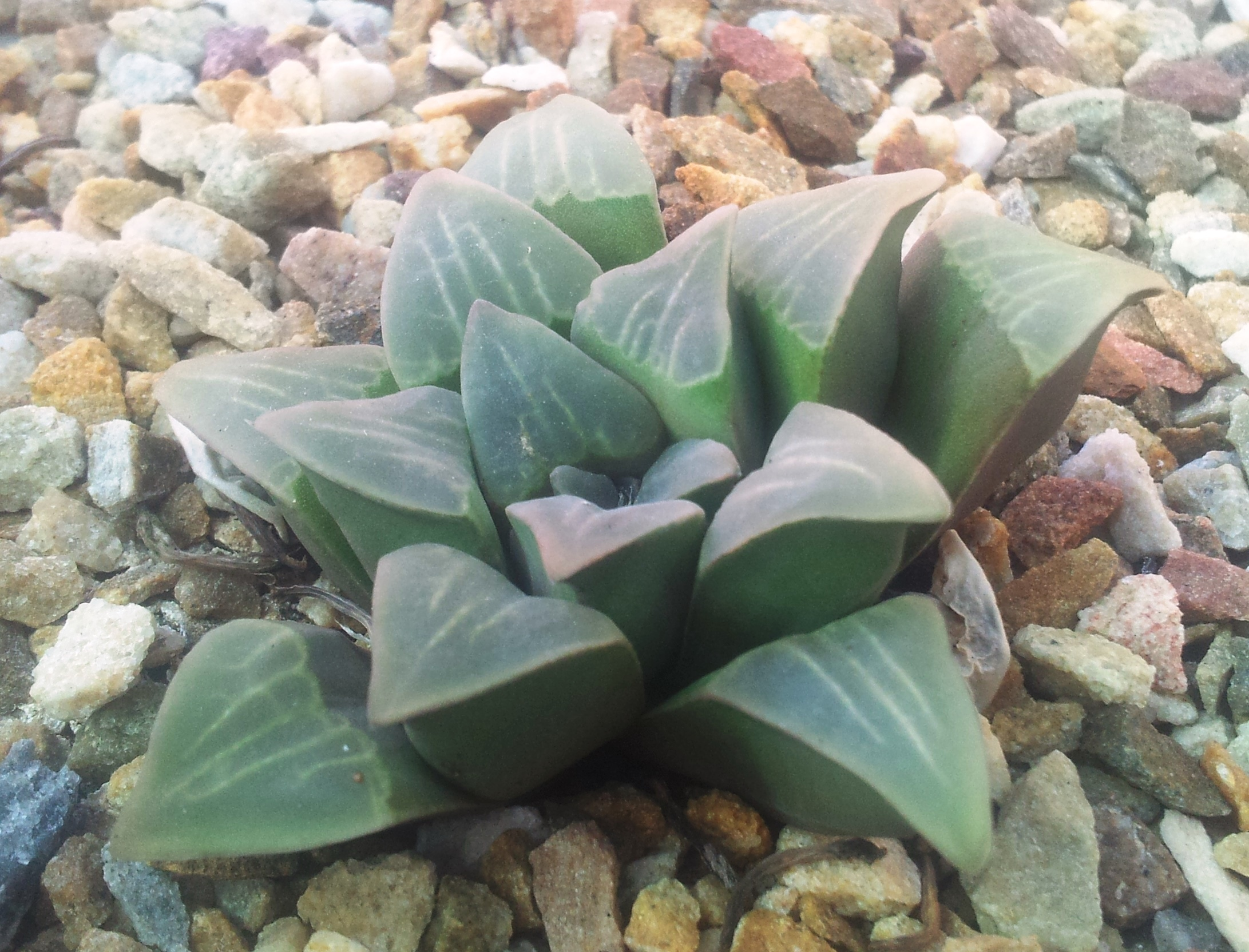 Haworthia mutica - stellenbosch